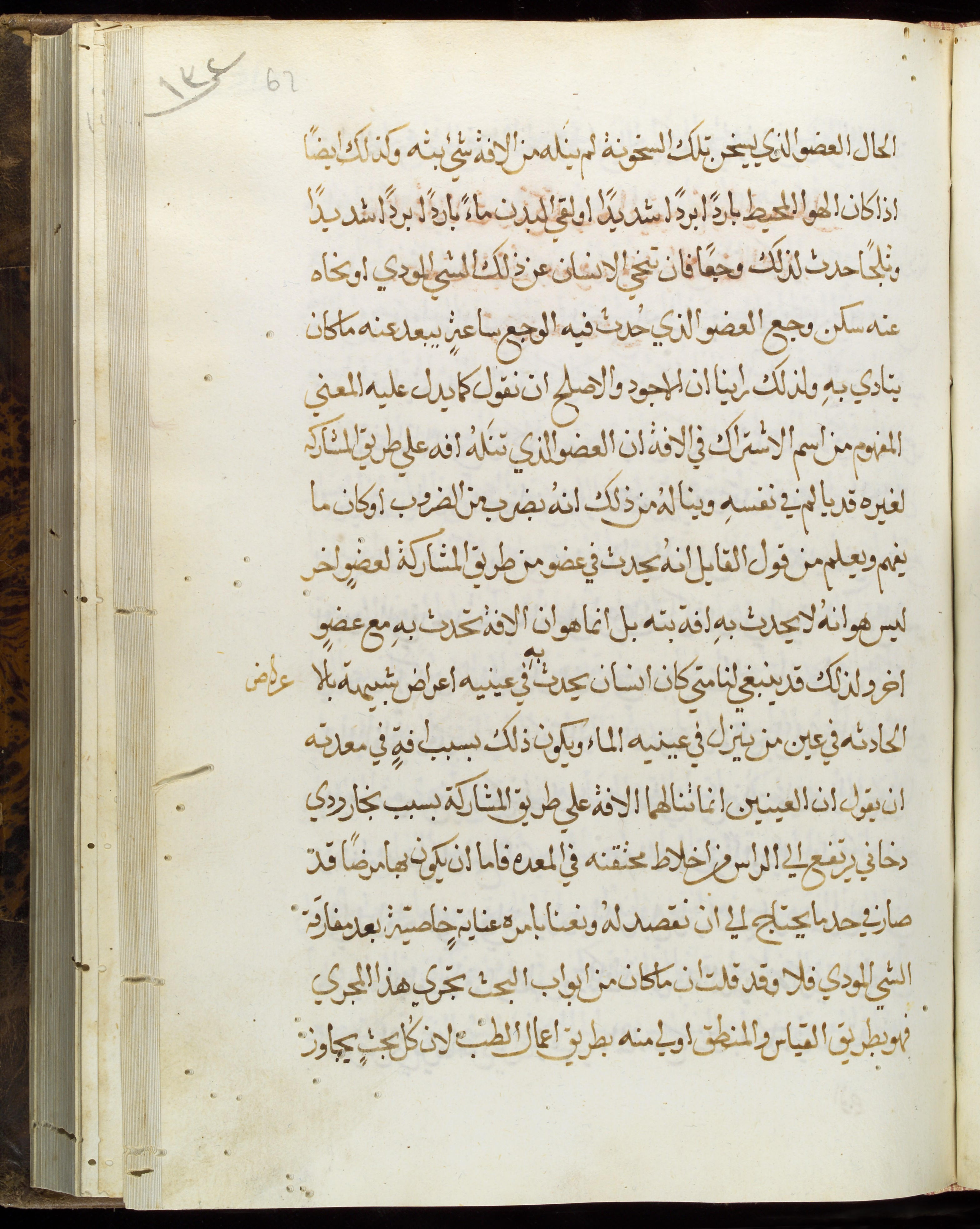 Page from 'Al-A 'da' al-alima' an Arabic medical text relating to Galen and diseases and their desciptions Asian Collection Keywords: Arabic; Galen; Disease